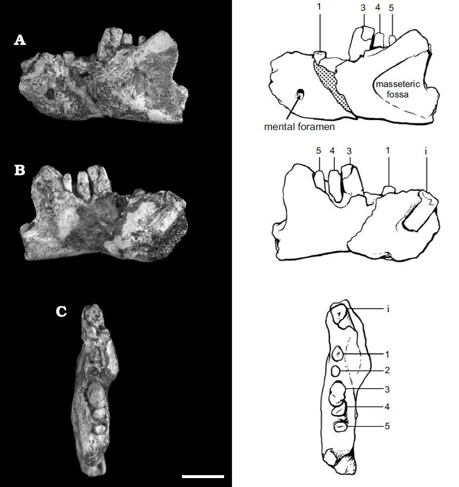 Photographs and drawings of left dentary of ?sudamericid gondwanatherian mammal (NMT 02067) from the Cretaceous of southwestern Tanzania in labial (A), lingual (B), and occlusal (C) views. Abbreviations: i, incisor; 1–5, cheek−teeth 1–5. Scale bar 5 mm